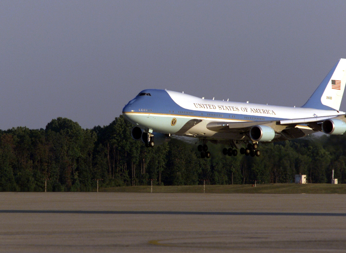 Air Force One comes in for a landing at Andrews AFB, Maryland, with the President onboard. The President was in Florida when the terrorists attack the Pentagon.